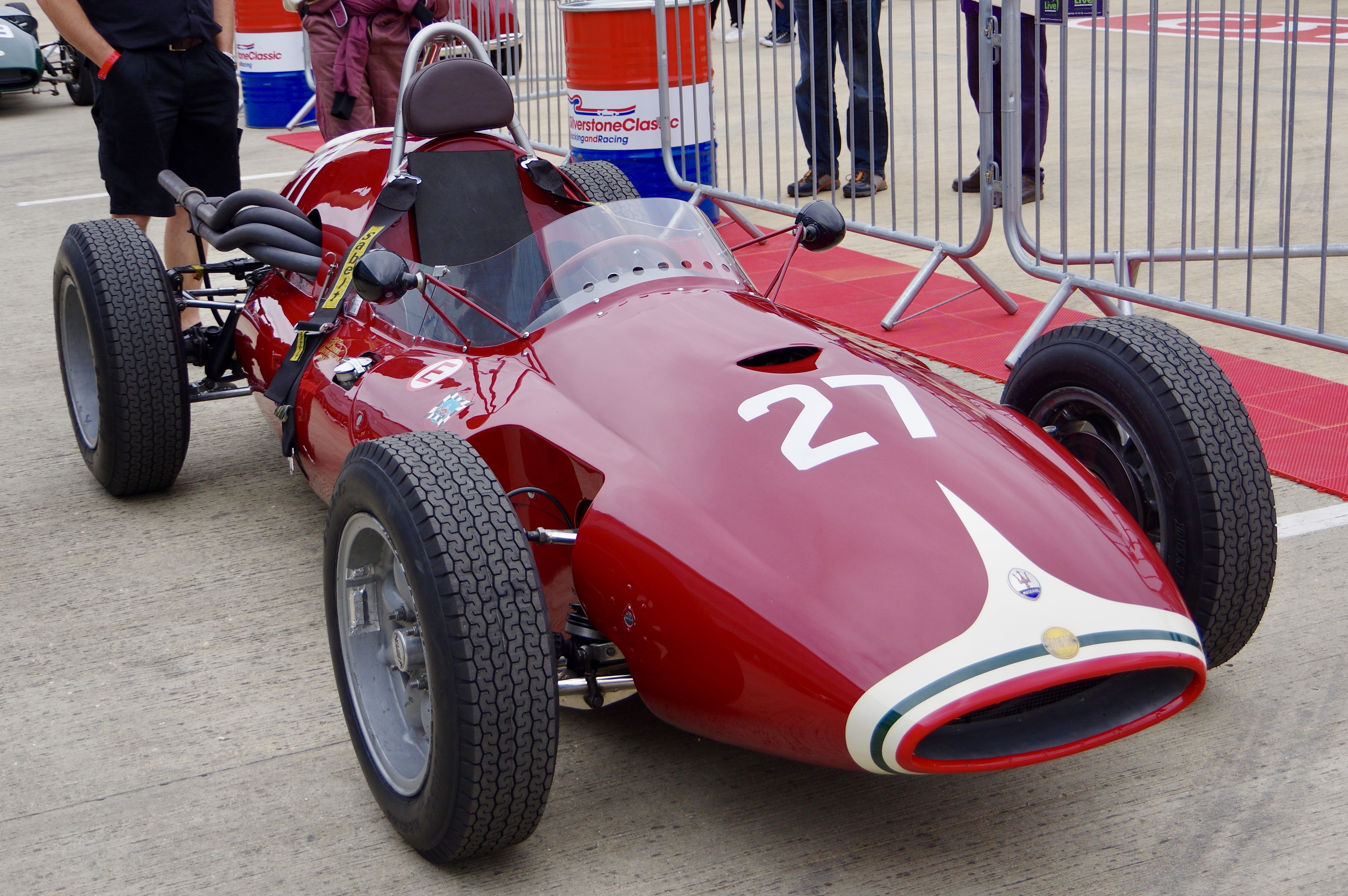 Cooper T51 2017 Silverstone Classic.